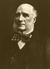 Louis, duc Decazes (1819-1886), French Minister of Foreign Affairs from 1873 to 1877